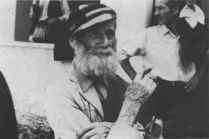 Lazar Drljaca devant la Maison de la coopérative agricole à Borci